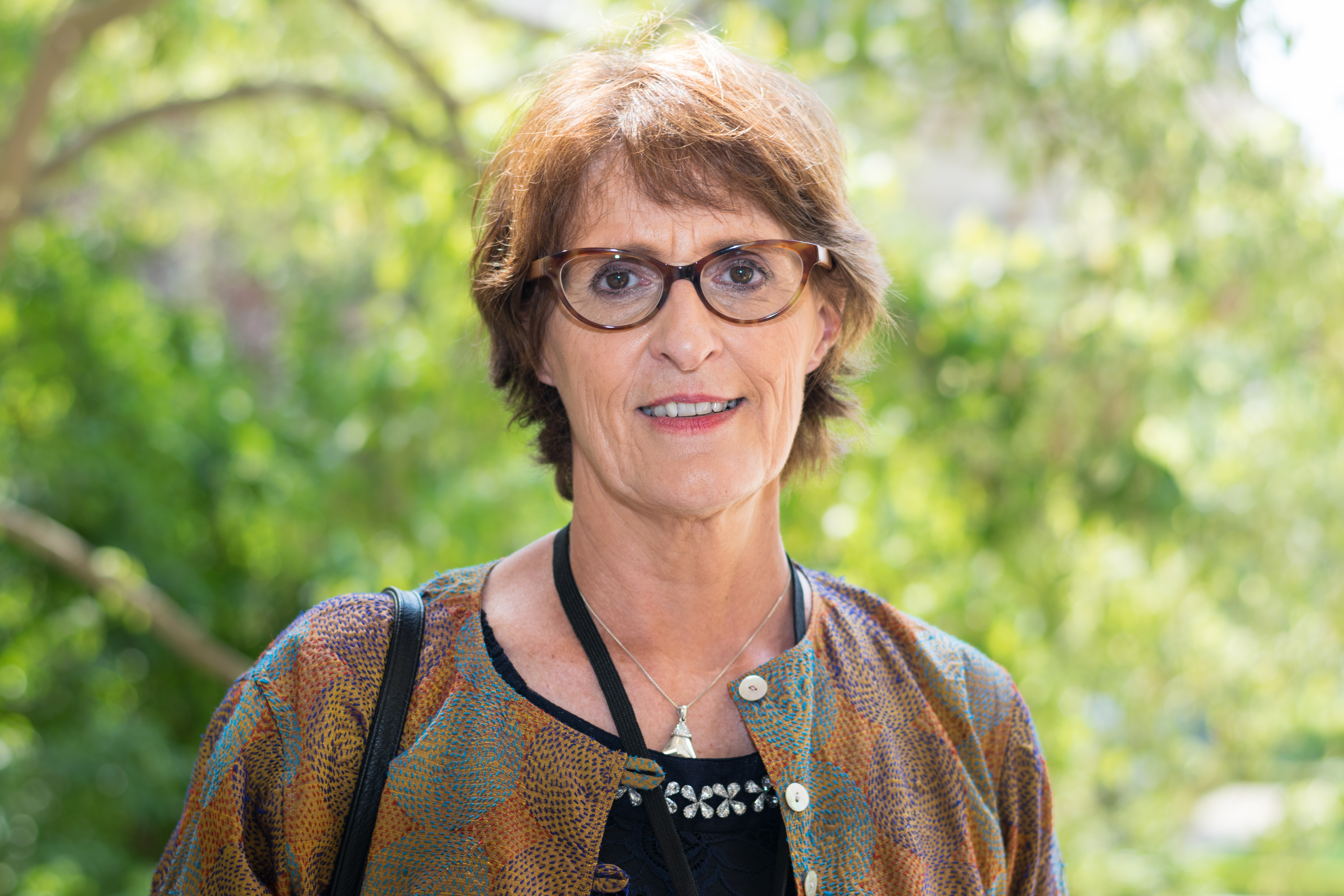 Frédérique Tuffnell in the garden of the Quatres Colonnes in the Palais Bourbon (Paris, France).